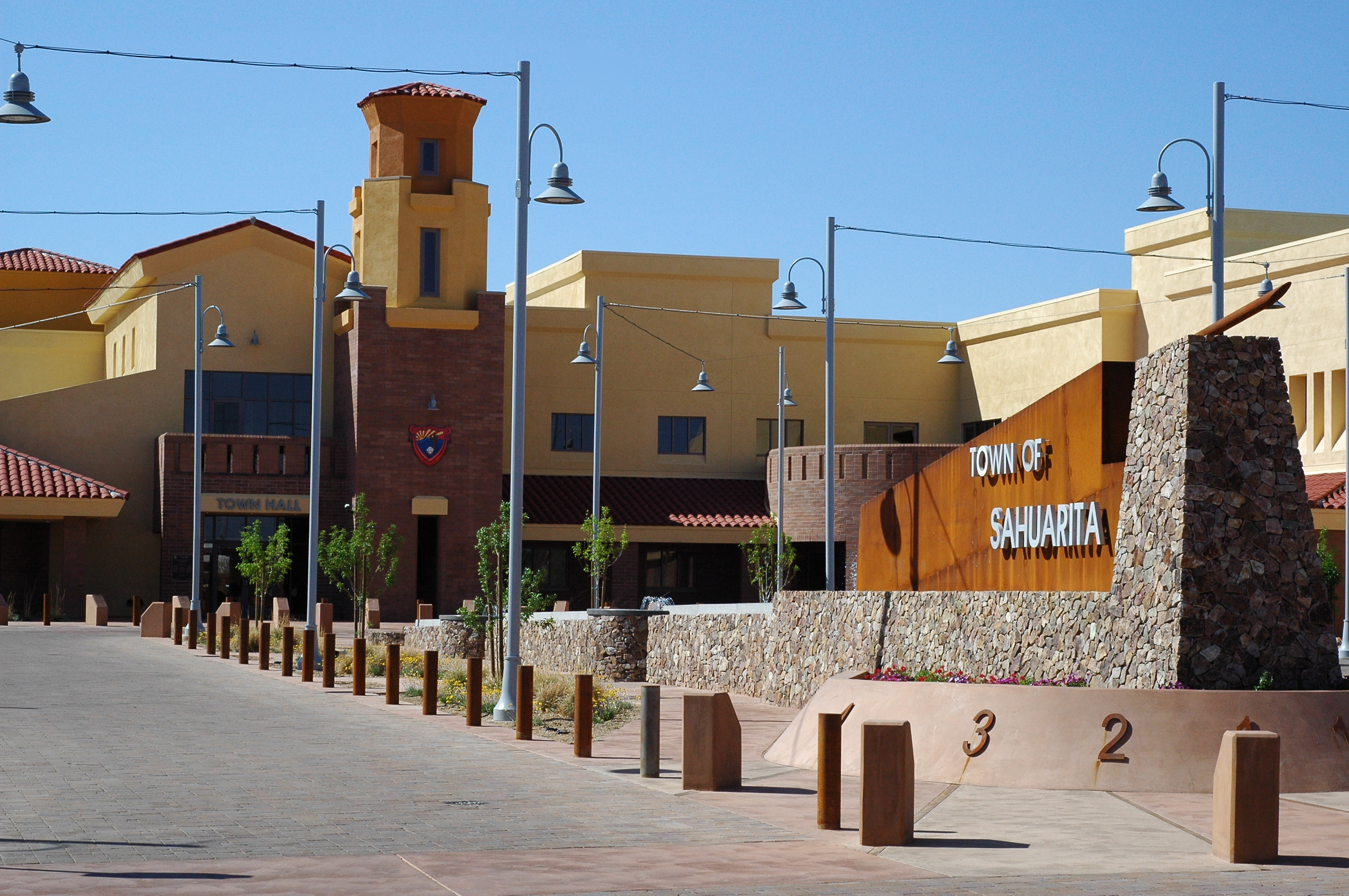 A photo of Sahuarita Town Hall